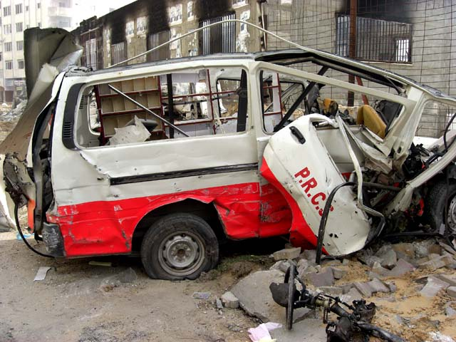 Al-Quds hospital, Gaza City, following Israeli shelling Photos by Eva Bartlett - ISM